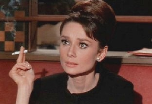 Audrey Hepburn in a screenshot from Charade (1963). See Charade#Copyright_issues